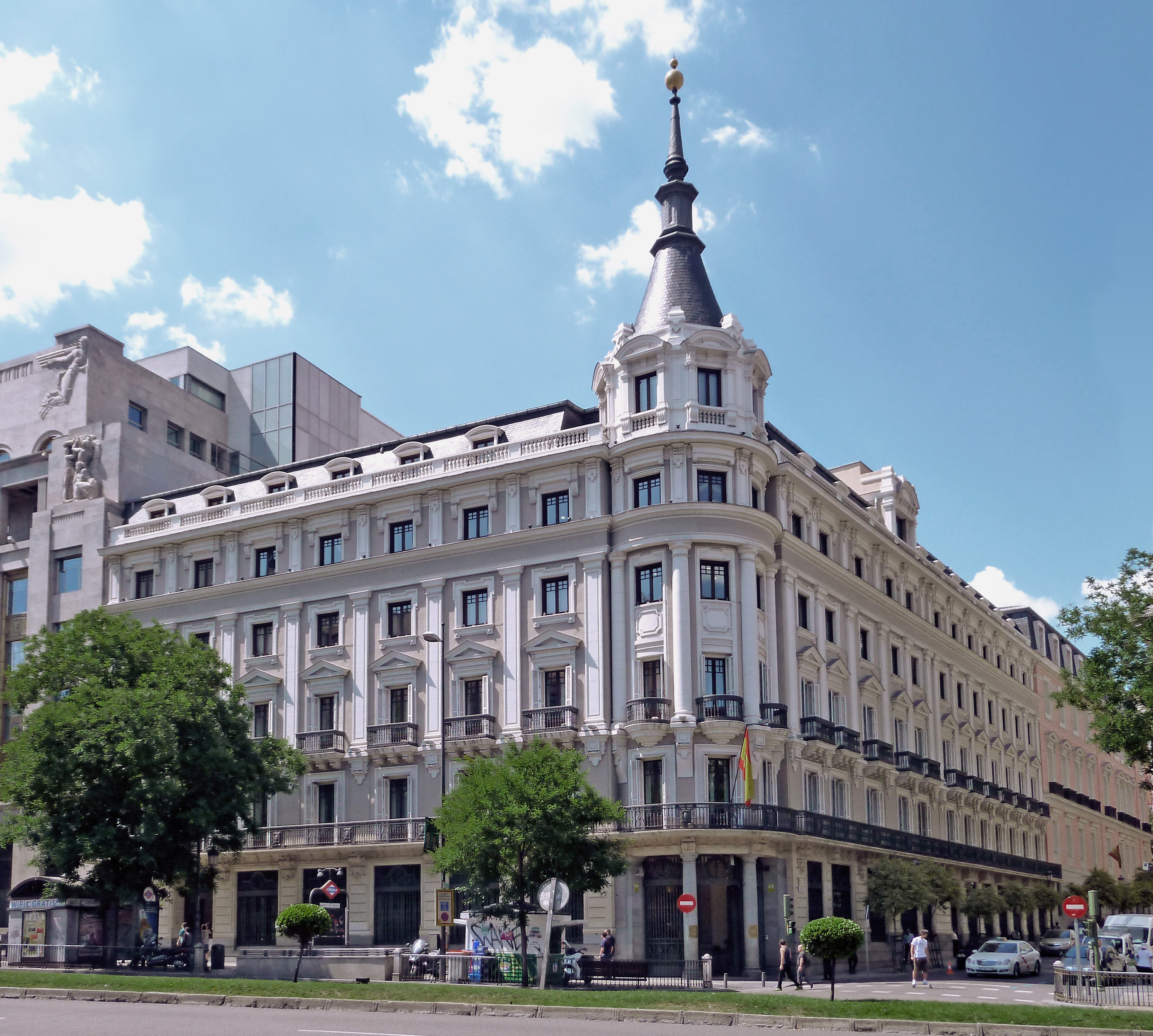 Building at 47 Calle de Alcalá (street) in Madrid (Spain).